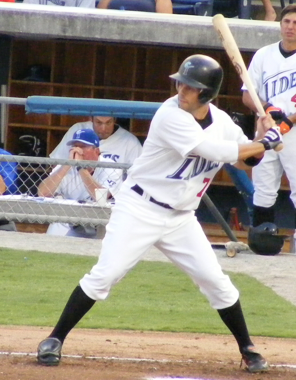 Adam Stern of the Norfolk Tides, taken at a game in Harbor Park against the Columbus Clippers